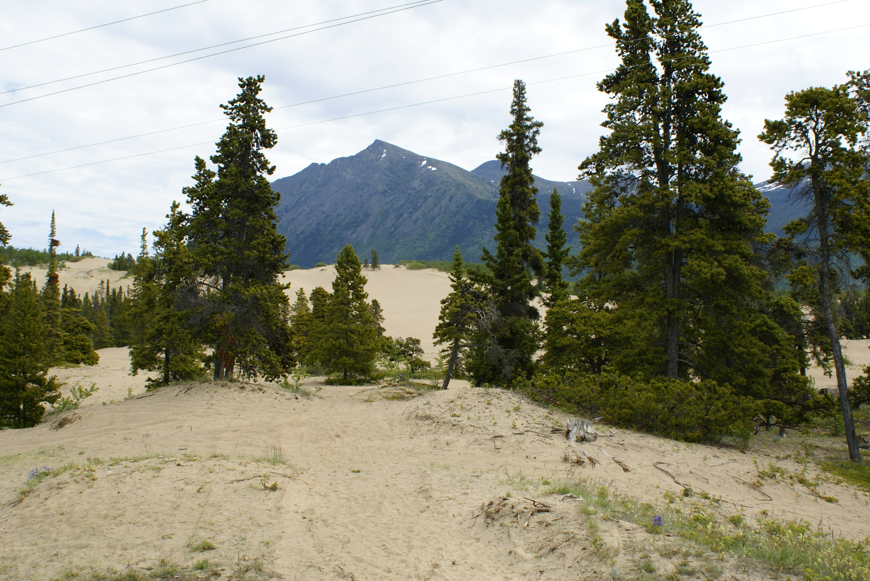 The Carcross Desert in the Yukon Territory